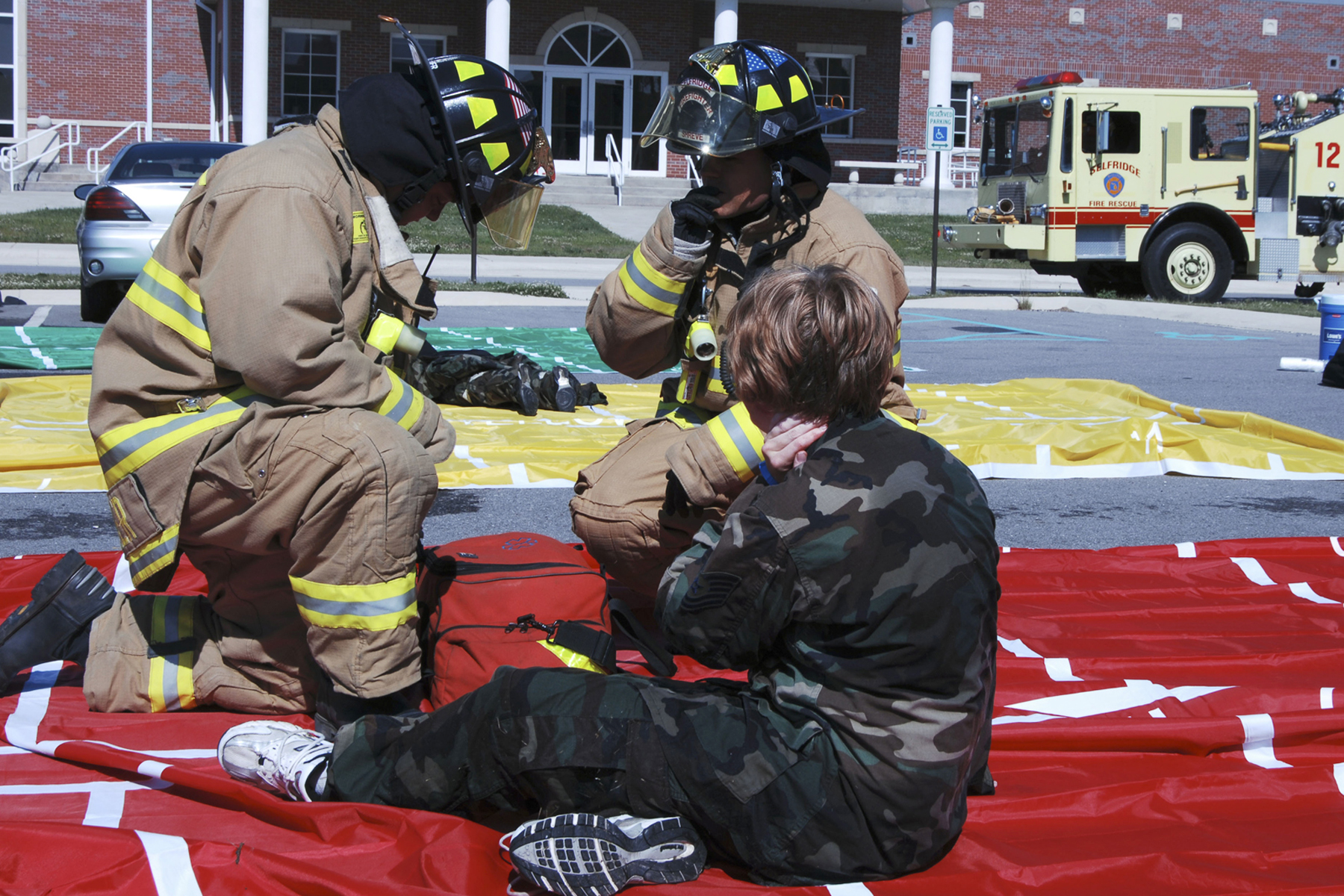 Fire Fighters Jason Collier and Anthony Shreve aid a casualty of a simulated tornado played by Civil Air Patrol member Amanda Shields during 127th Wing's Tornado Response exercise on June 1st, 2010 at Selfridge Air National Guard Base.